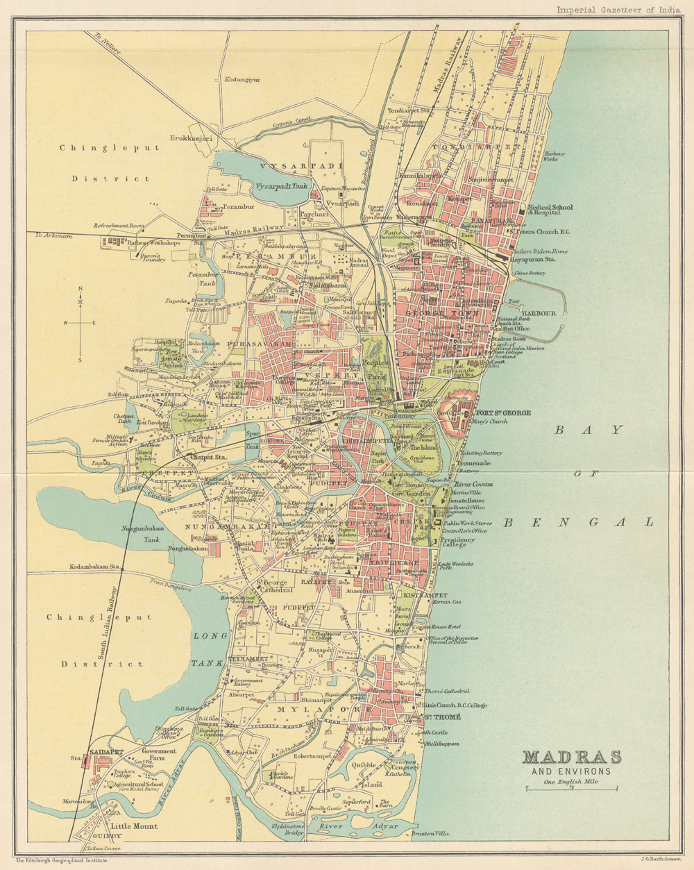 want to see the chennai much earlier